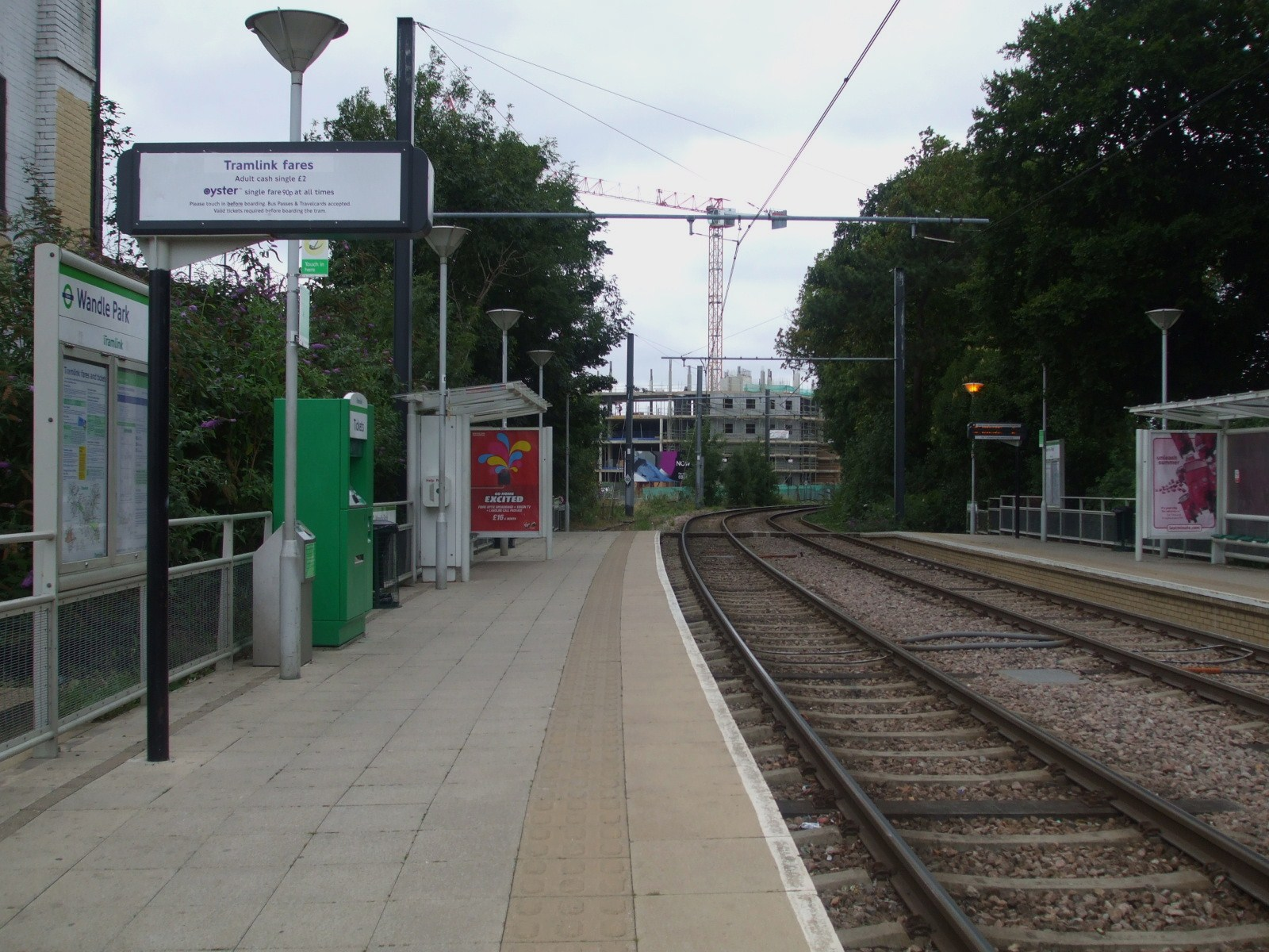 Wandle Park tramstop platforms looking west